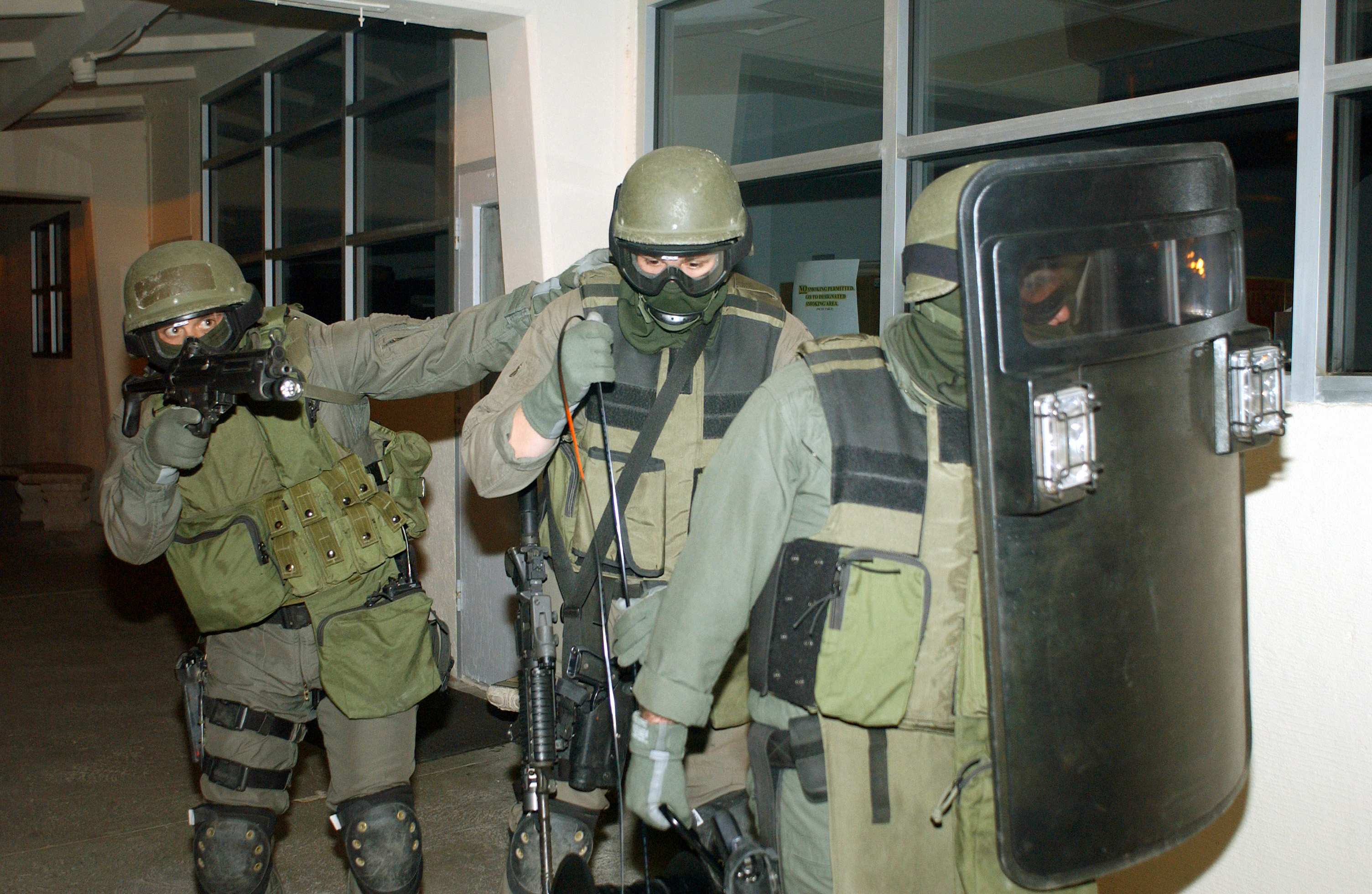 US Marine Corps (USMC) Military Police (MP) assigned to the Special Reaction Team (SRT), armed with a Colt 9mm submachine gun and a Heckler and Koch 9mm MP5-N sub-machine gun prepare for an assault on the hostage takers during a simulated bank robbery at the Pacific Marine Credit Union aboard the Marine Air Ground Combat Center in Twentynine Palms, California (CA). The annual training event, conducted by the Provost Marshals Office, is designed to train Military Police and Criminal Investigators proper procedures when dealing with a hostage situation. Pictured foreground-to-background are: Corporal (CPL) Stephen L. Clogston, CPL Robert Allison and Hospital Corpsman Third Class (HM3) Thomas J. Cupo.